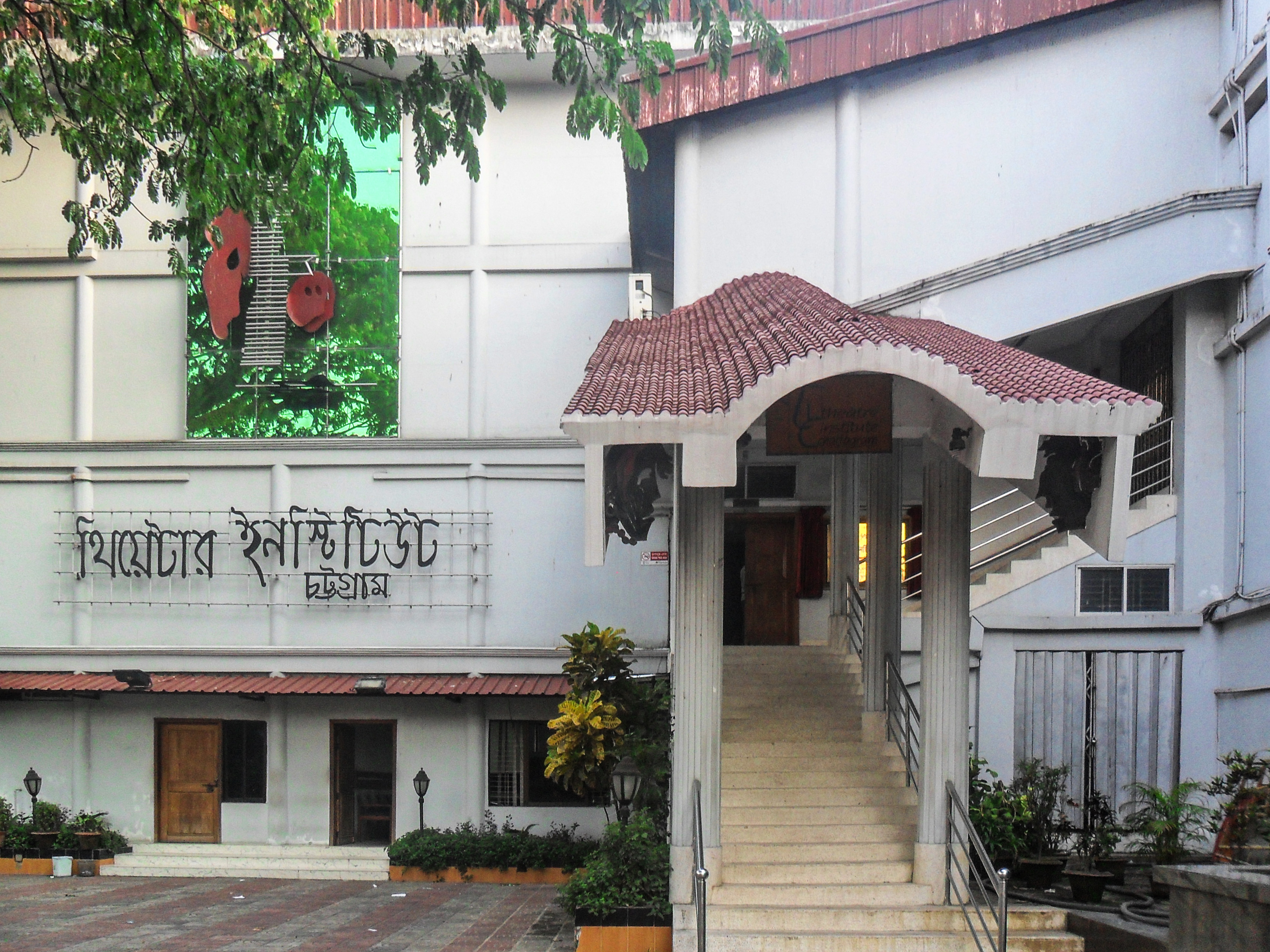 Theatre Institute Chattagram, is a cultural convention centre located at K C Dey Road, in Chittagong, Bangladesh.